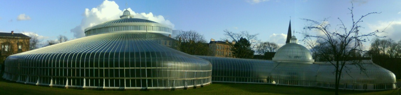 Kibble Palace back view (panorama)